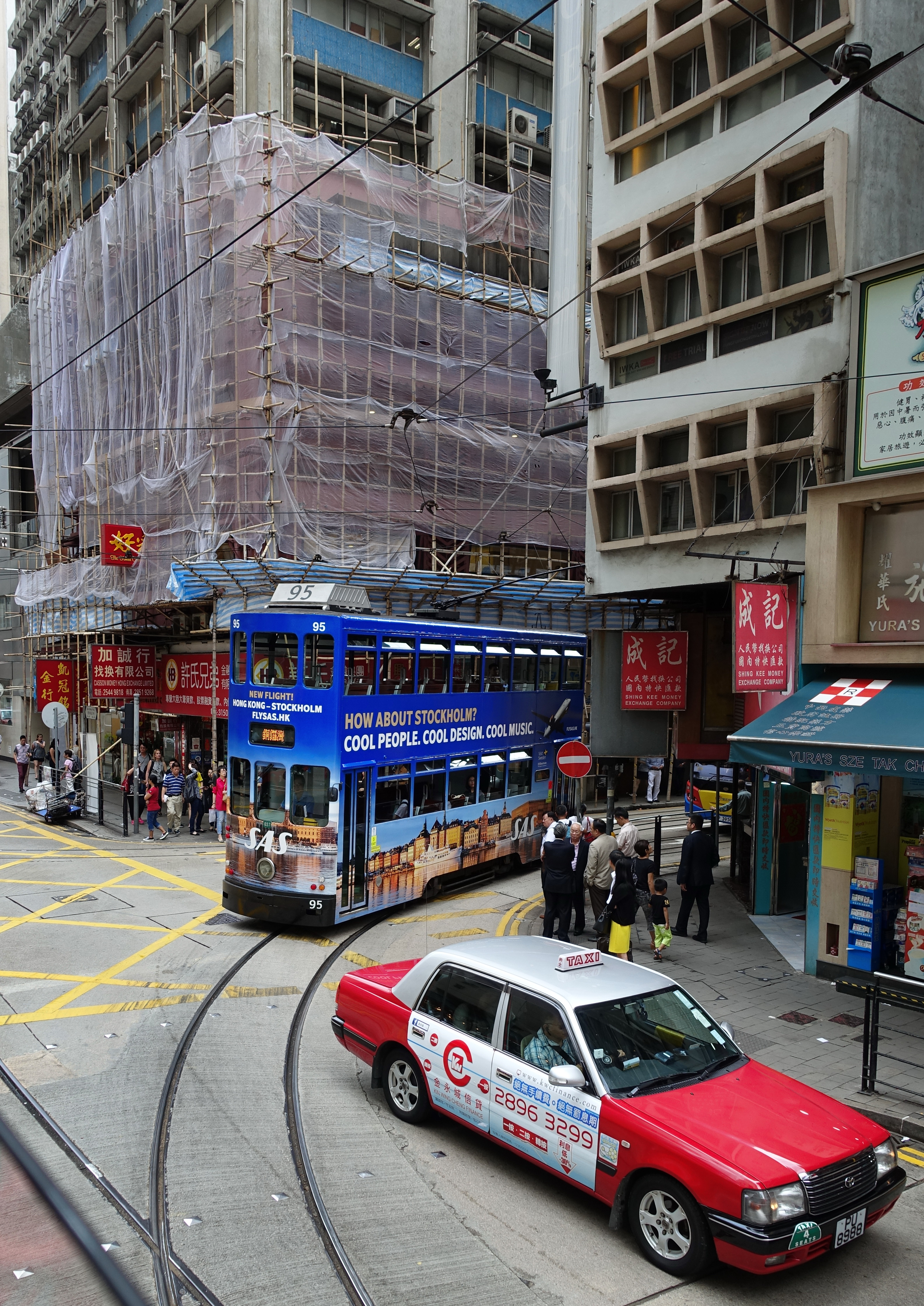 Cleverly Street and Des Voeux Road Central, Hong Kong.